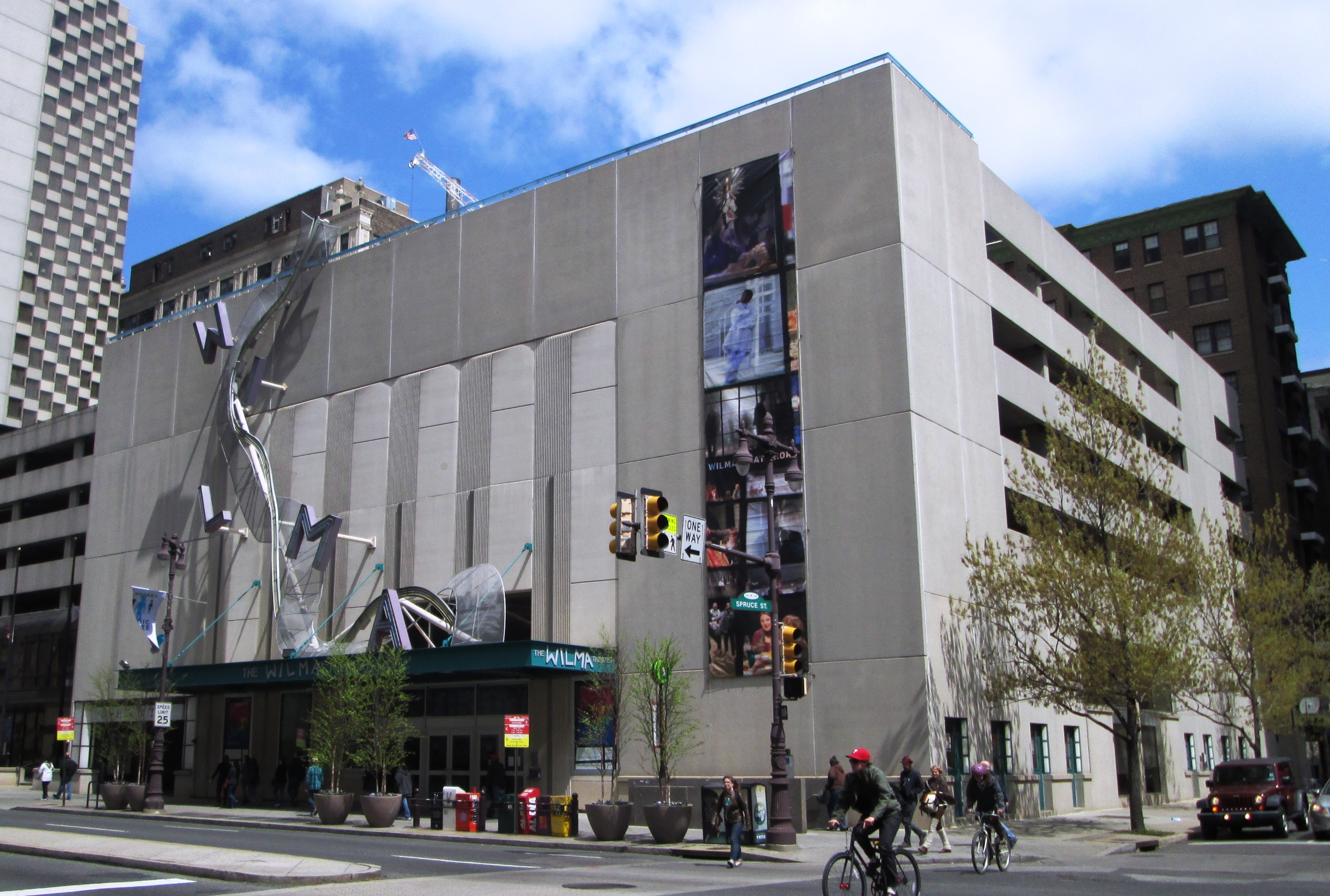 The Wilma Theater at 265 S. Broad Street at the corner of Spruce Street in the "Avenue of the Arts" area of Center City, Philadelphia was founded in 1973 as the Wilma Project. The company's current 296-seat theatre opened in 1996 and was designed by Hugh Hardy. (Source: "History" on the Wilma Theater website)